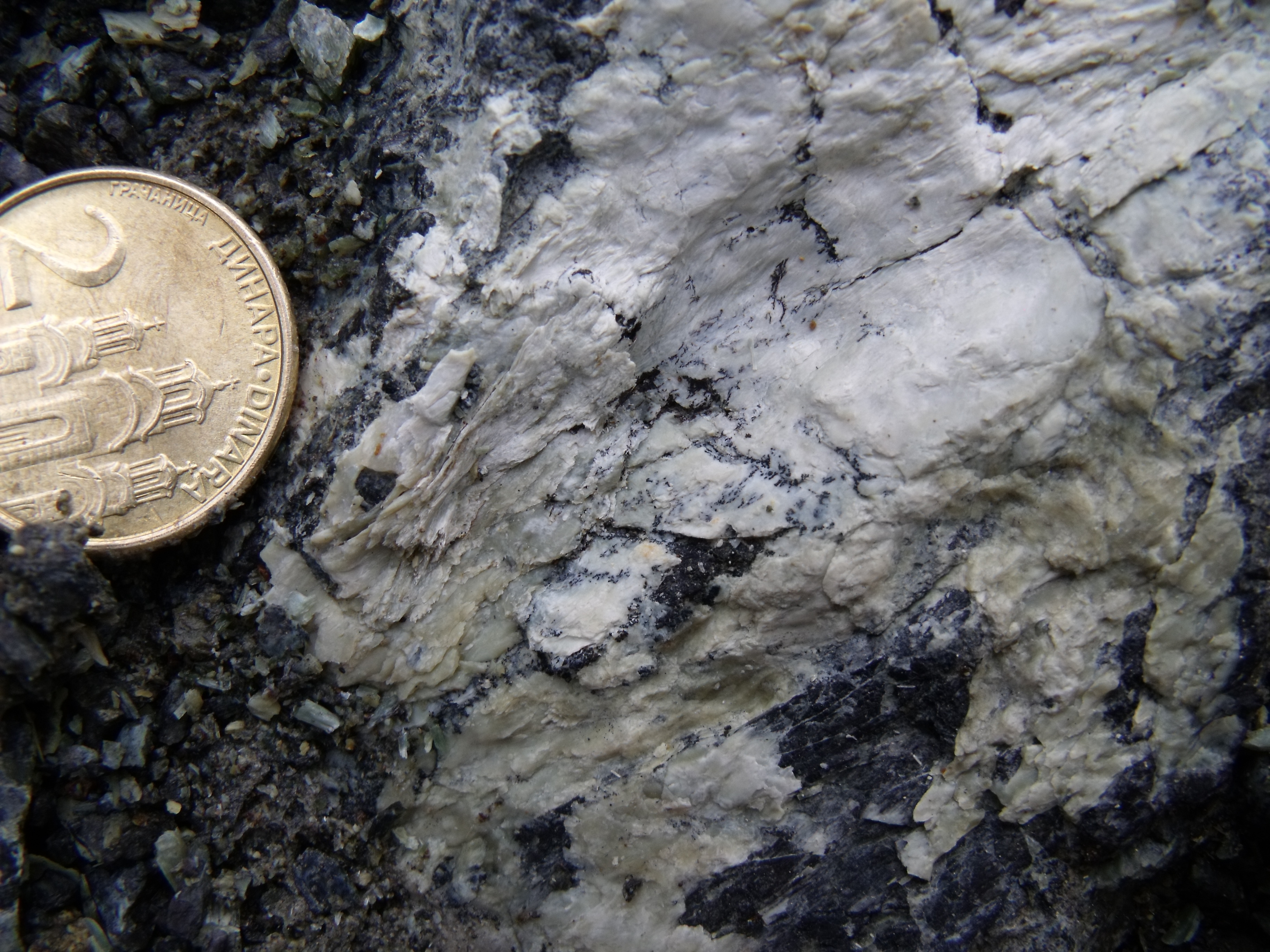 Serpentine on the serpenitinized peridotite, Vardar zone, western Serbia